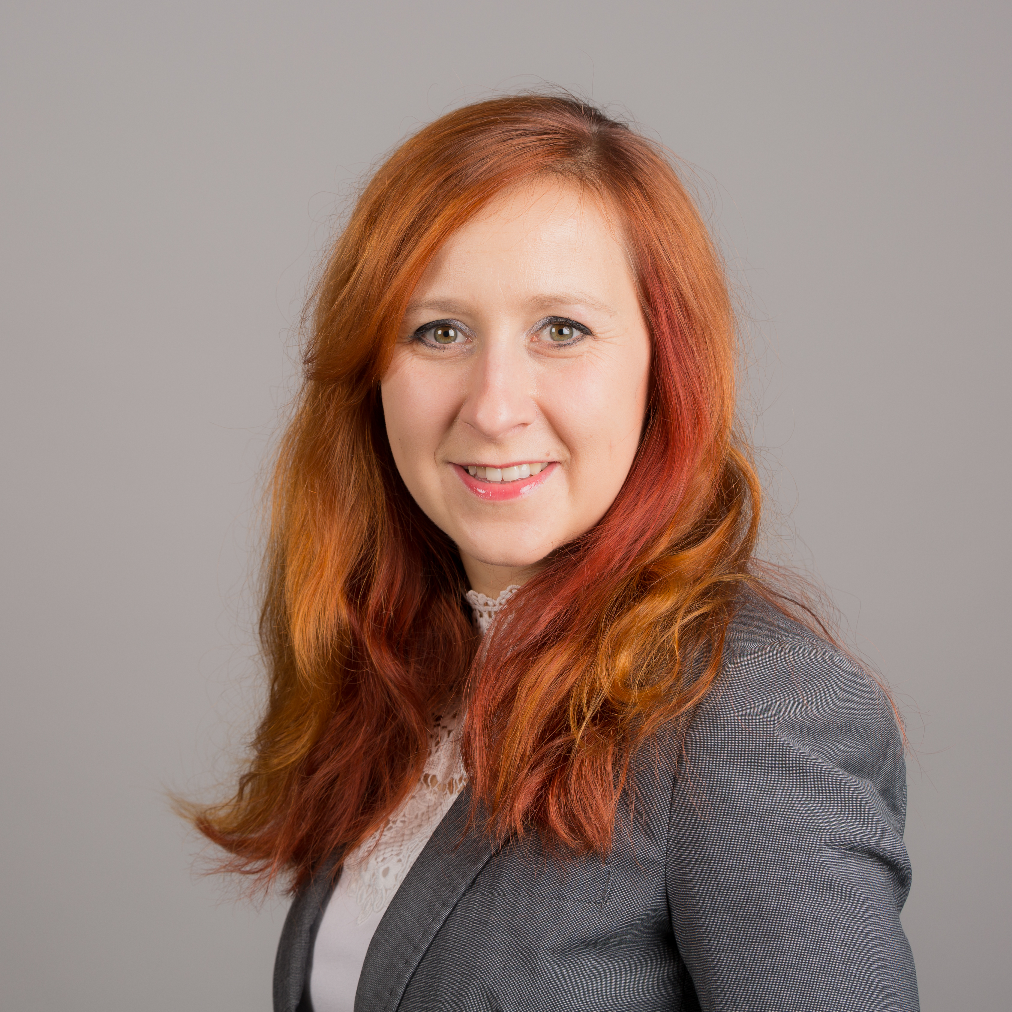 Franziska Schubert, Green party, Member of the Parliament of the Free State of Saxony